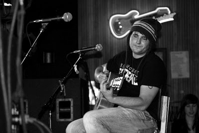 Dane Schmidt performing at the Making History Rock Show